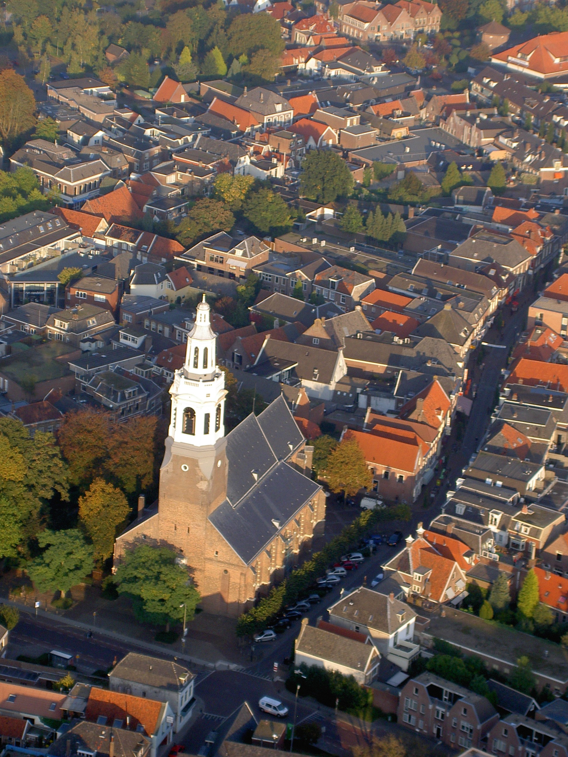 Aerial Photograph of Nijkerk, the Netherlands. Grote Kerk